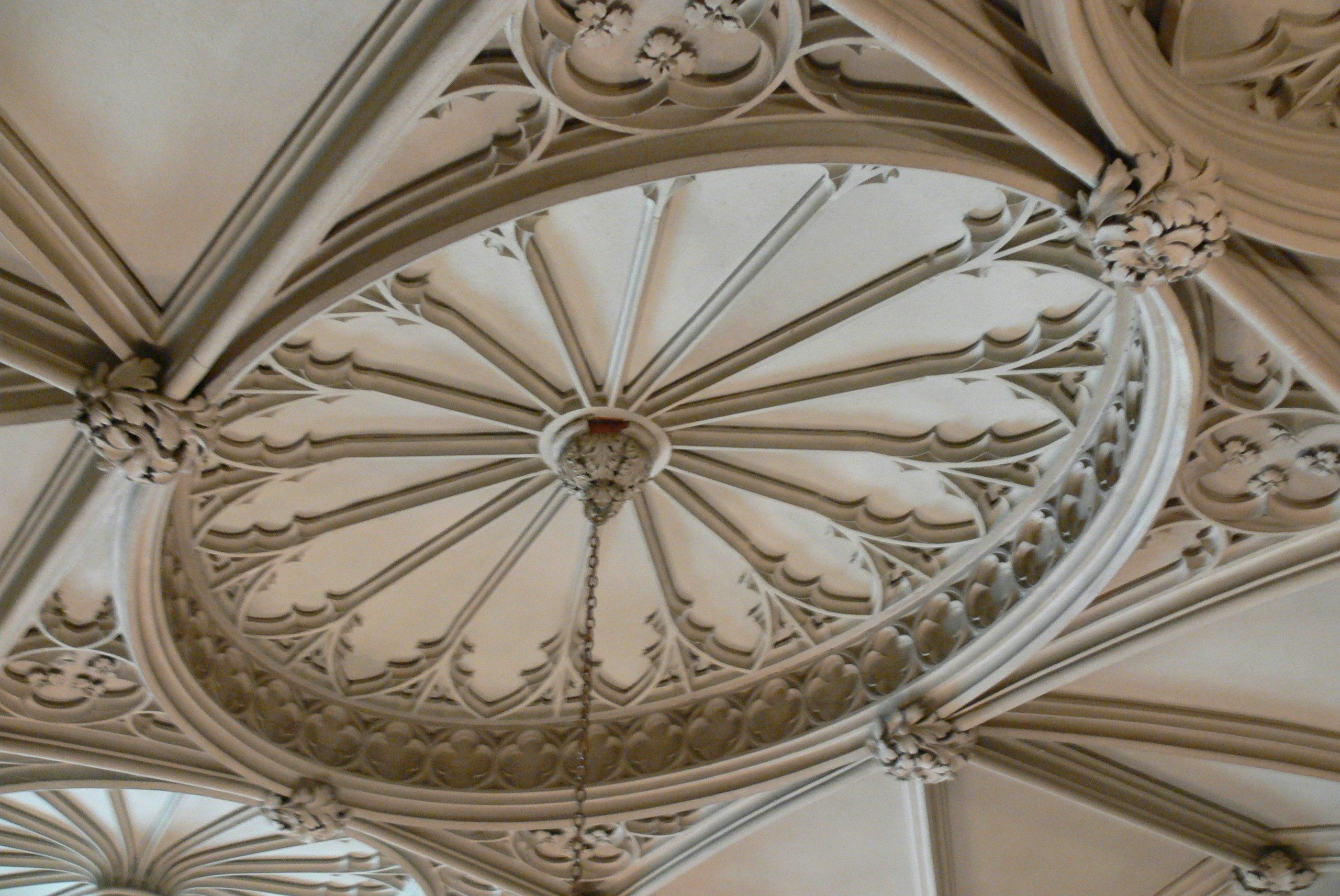 Plas Newydd (Anglesey). Gothic revival vaults in the entrance hall.